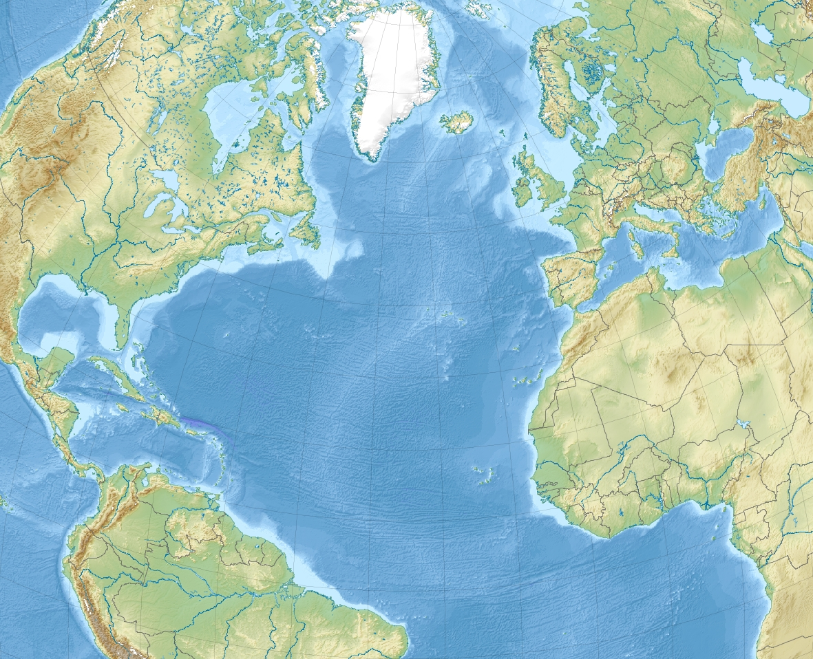 Relief location map of North_Atlantic_Ocean. Projection: Lambert azimuthal equal-area projection. Area of interest: N: 80.0° N S: -10.0° N W: -90.0° E E: 20.0° E Projection center: NS: 35.0° N WE: -35.0° E GMT projection: -JA-35.0/35.0/180/19.998266666666666c GMT region: -R-90.20792279565853/-21.091764445478827/71.02192702284165/38.61651360858501r GMT region for grdcut: -R-142.0/-22.0/72.0/84.0r Relief: SRTM30plus. Made with Natural Earth. Free vector and raster map data @ .